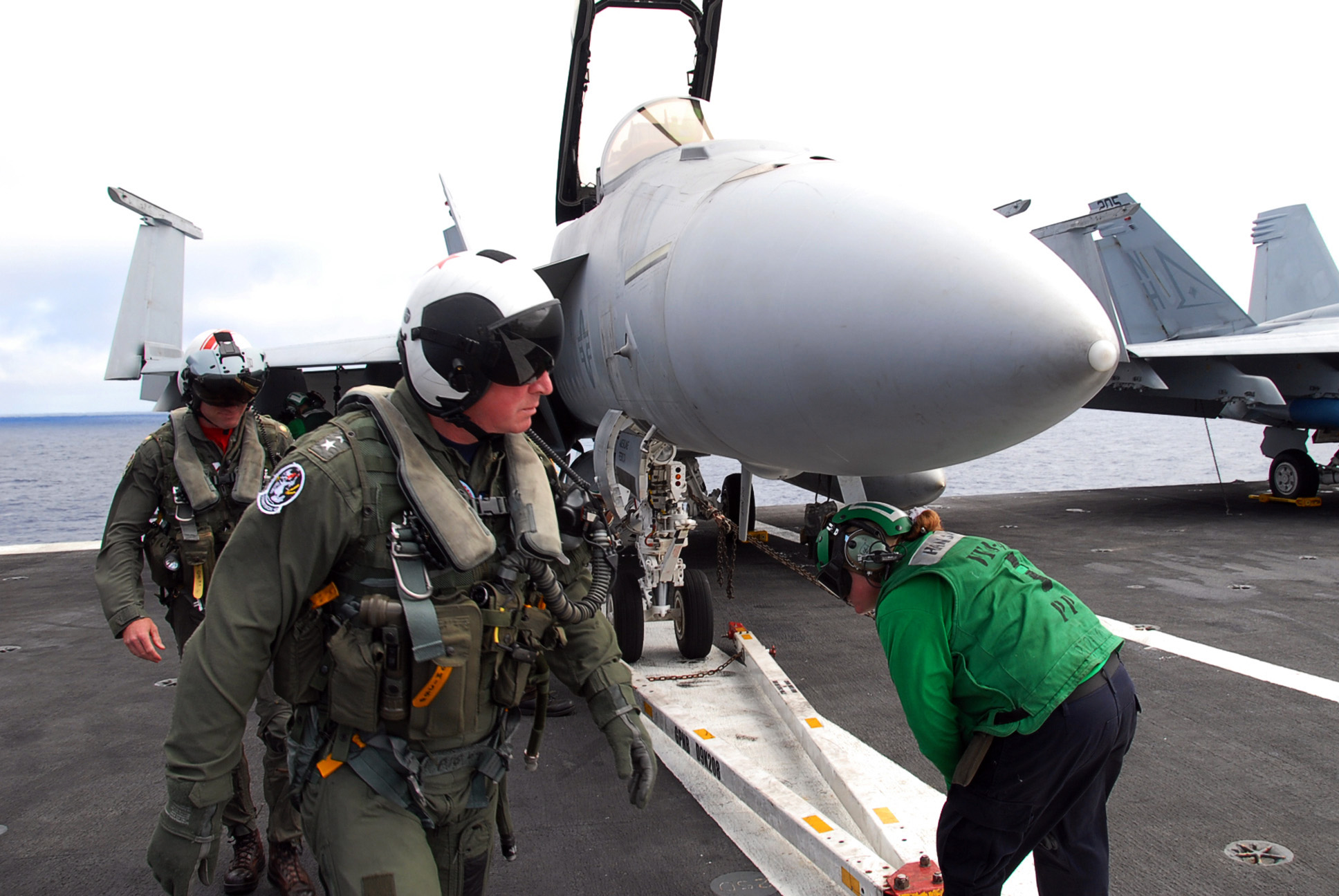 PACIFIC OCEAN (Aug. 1, 2009) Rear Adm. John W. Miller, commander of Carrier Strike Group Eleven (CSG) 11, performs a pre-flight inspection of an F/A-18F Super Hornet assigned to the Black Aces of Strike Fighter Squadron (VFA) 41 aboard the aircraft carrier USS Nimitz (CVN 68). Nimitz and embarked CVW-11 are on a scheduled deployment to the western Pacific Ocean. (U.S. Navy photo by Mass Communication Specialist 3rd Class Eduardo Zaragoza/Released)